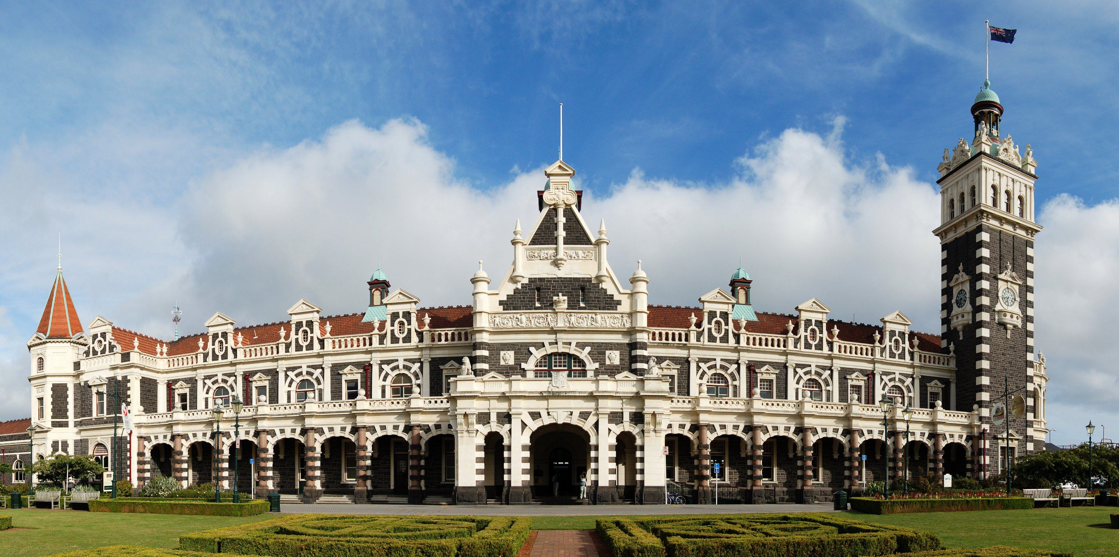 Dunedin Railway Station, Dunedin, New Zealand 9×1 panorama created from a Nikon D50 with 18-55mm f/3.5-5.6, stitched with Hugin Higher resolution version and other licensing options available upon request.